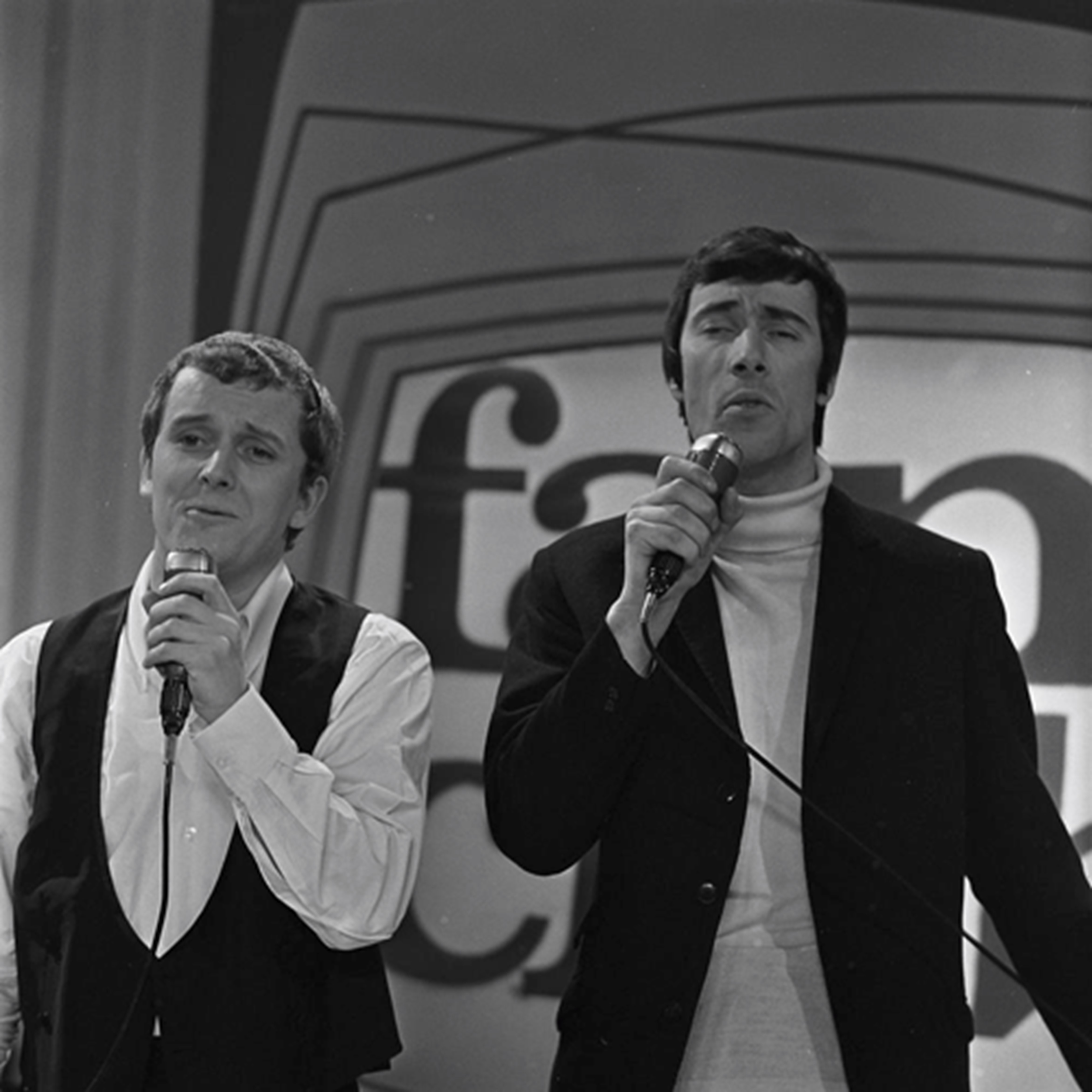 Bristol band David and Jonathan performing the songs "Looking for my life" and "Ten stories high" in the Dutch TV programme Fanclub. Recorded 7 January 1967, broadcast 13 January 1967